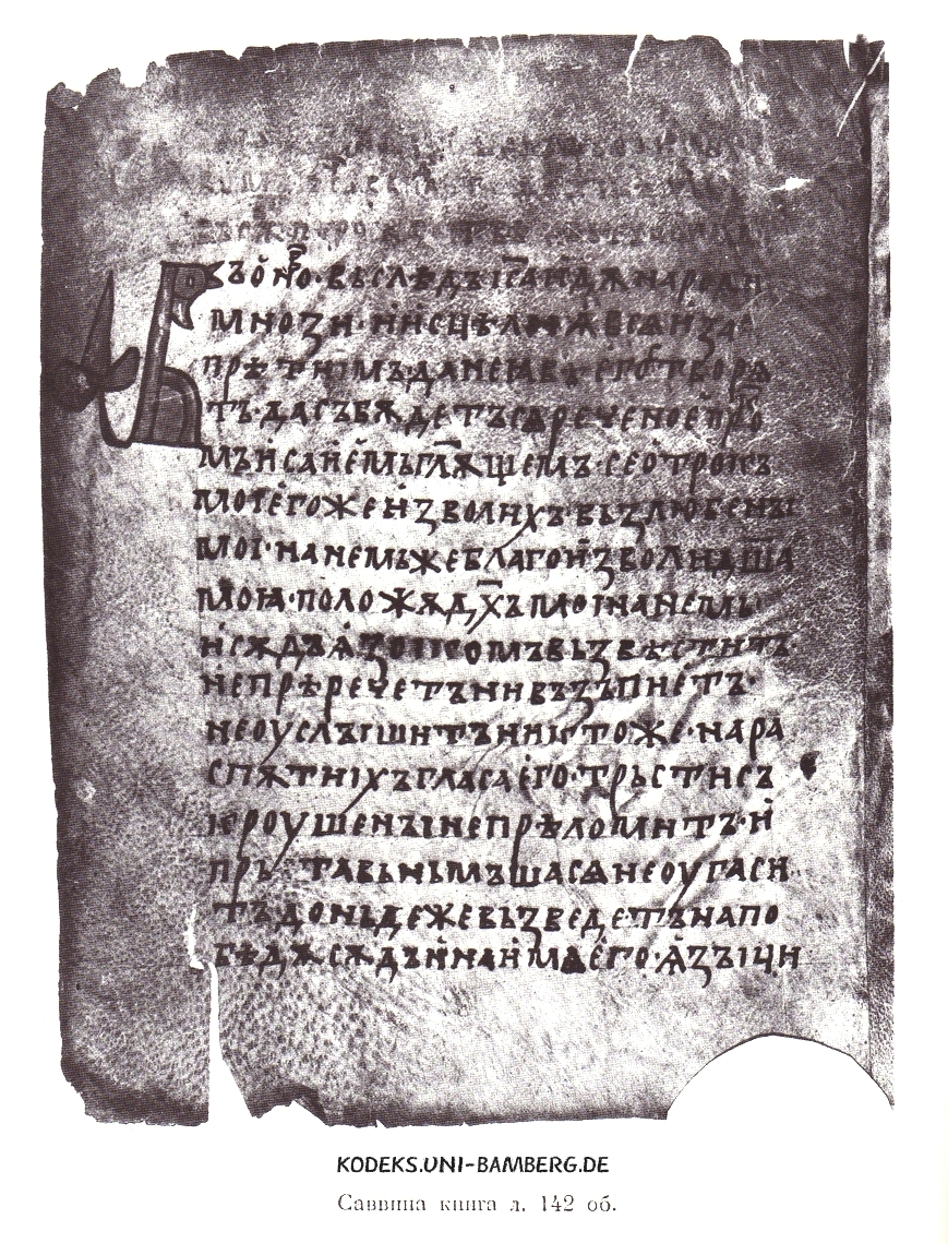 A scan from the 1903 edition of Sava's book by Ščepkin.